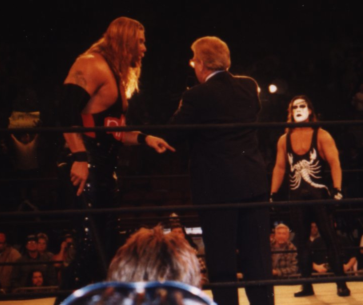 Kevin Nash (left) and Sting (right) during a taping of WCW Monday Nitro from Minneapolis, Minnesota in 1998.